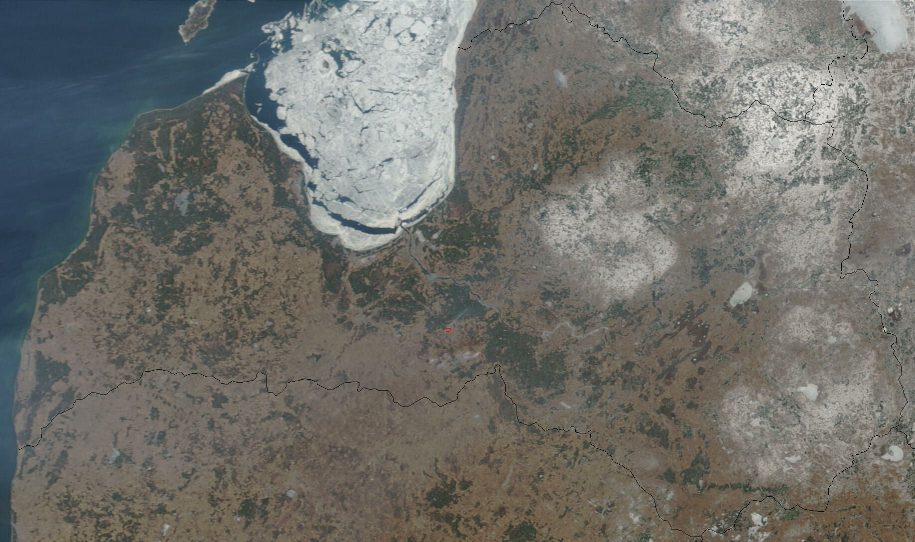 Satellite image of Latvia in March 2003.